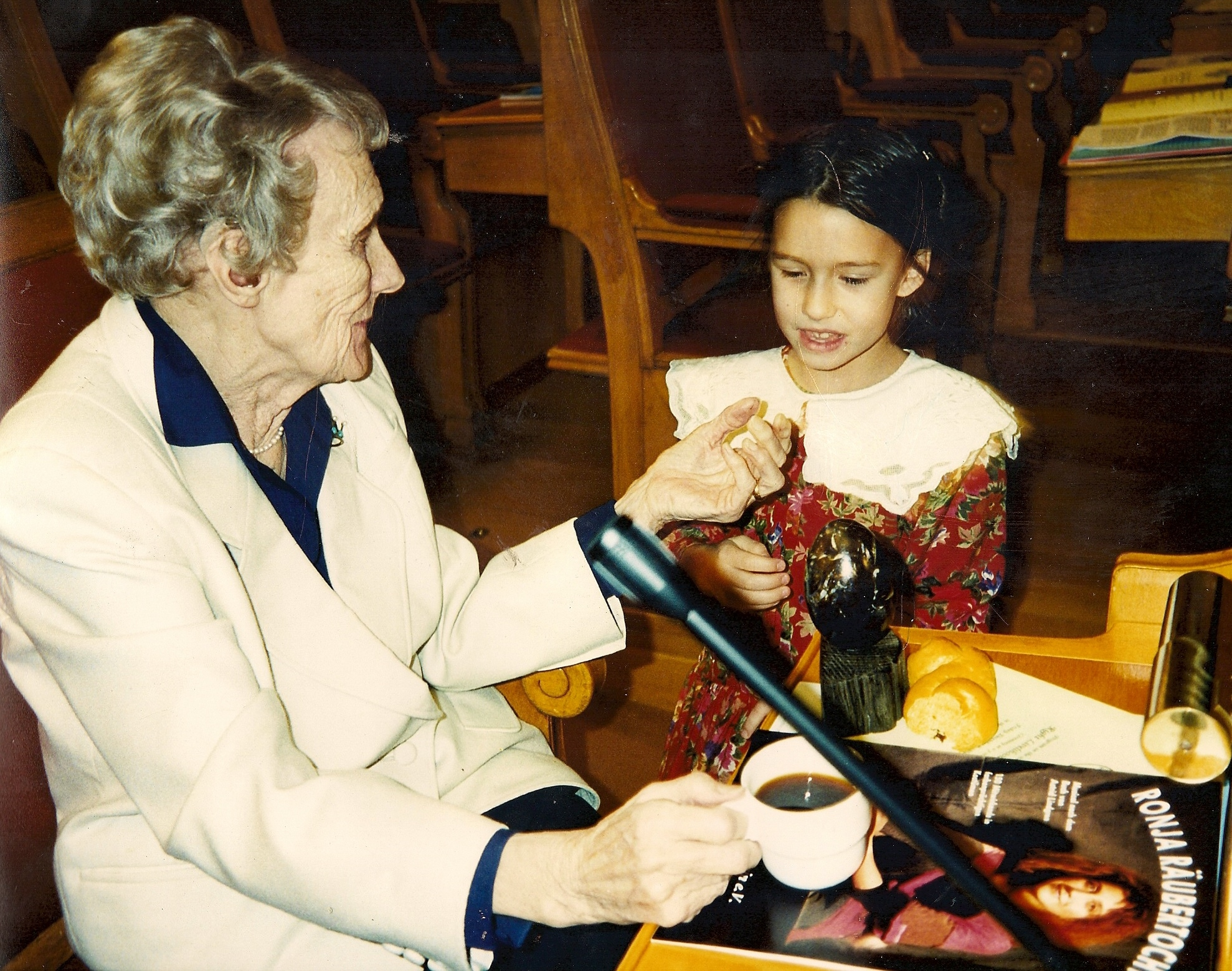 Astrid Lindgren receives the Right Livelihood Award in the swedish parlament in Stockholm in 1994. On the table: The Right Livelihood Award and a program of the big german musical "Ronja Räubertochter" (Ronia, the robber's daughter), by Axel Bergstedt, which had debut in these days.